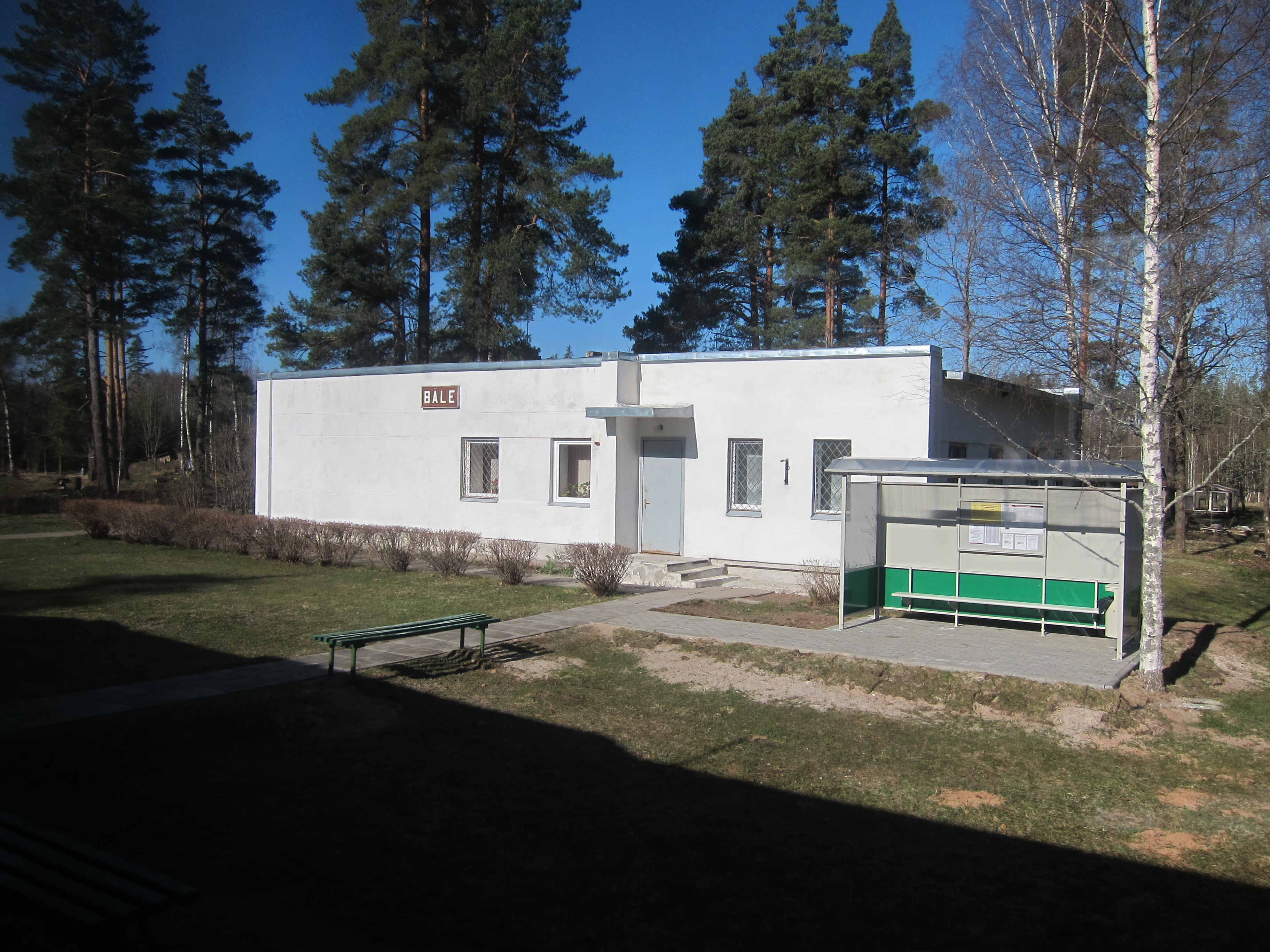 Пассажирское здание станции Бале